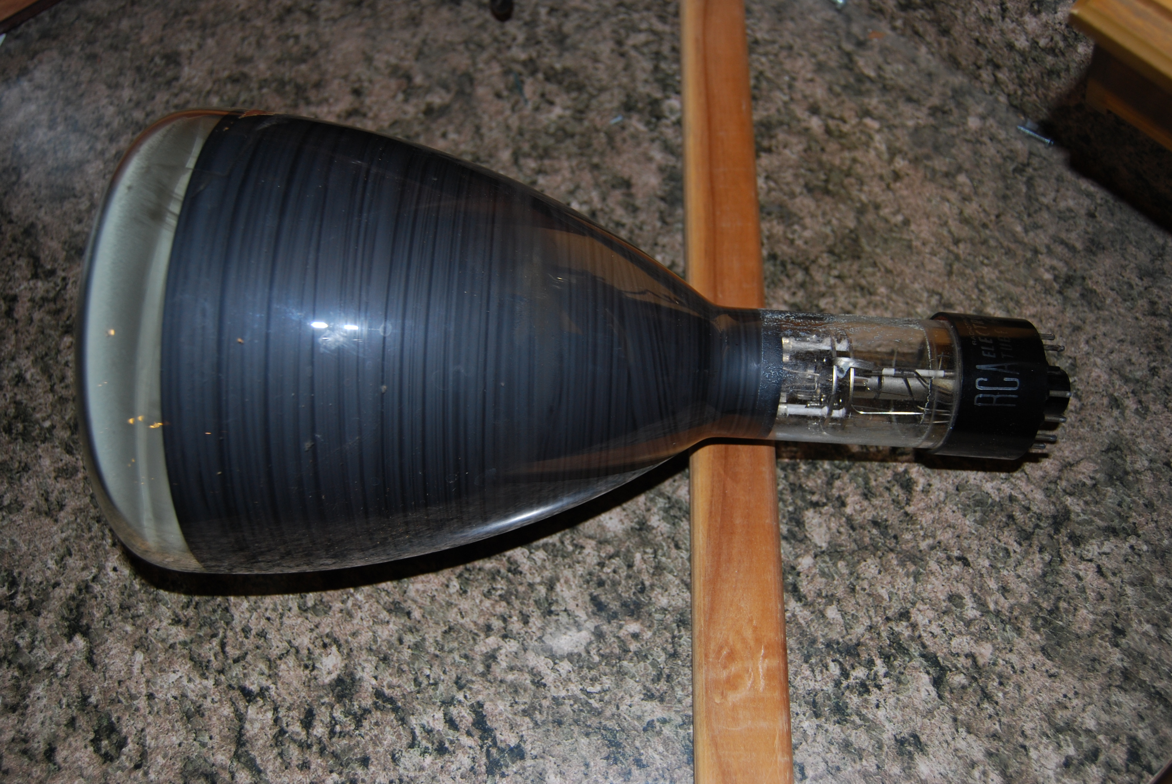 7JP4 picture tube was used extensively in small low cost televisions made and sold in the United States during the late 1940's. It is electrostatic in design, soon made obsolete by electromagnetic deflection television.